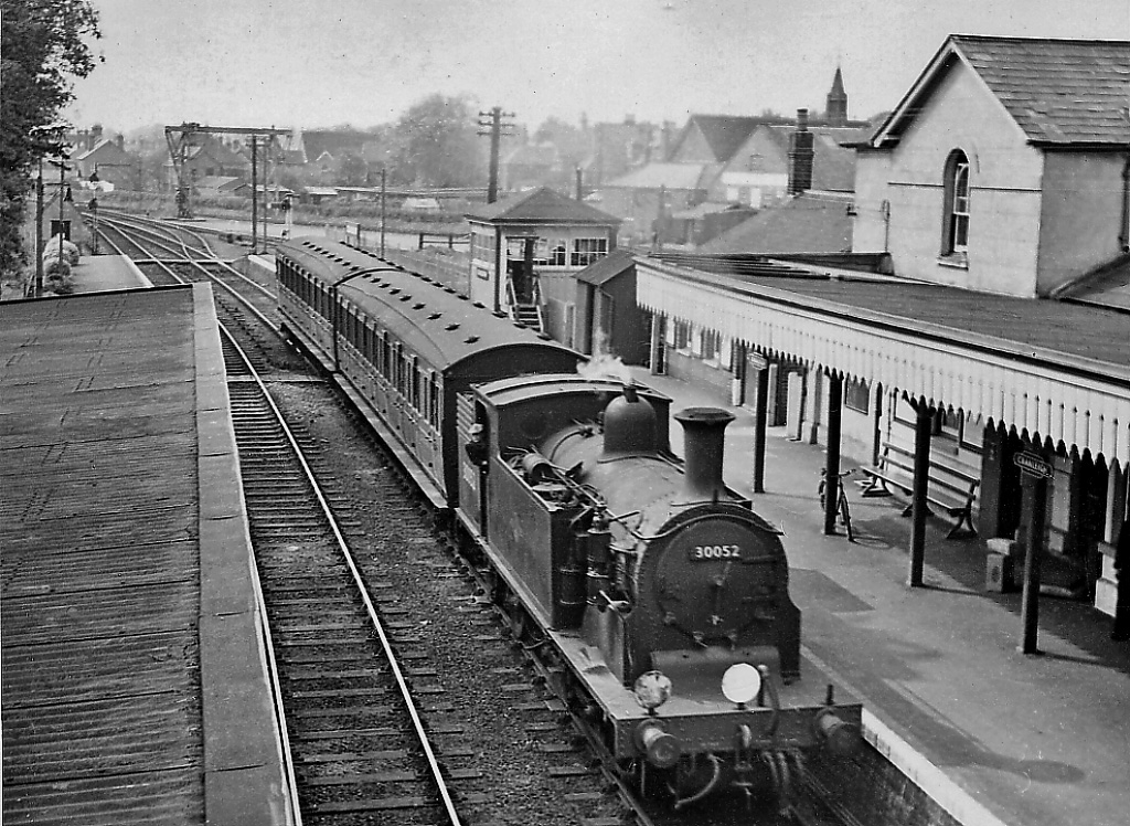 Cranleigh Station, with Guildford - Horsham auto-train. View NW, towards Guildford: ex-LB&SC Guildford (Shalford Junction) - Christ's Hospital - (Horsham) line. The closure of this 'commuter' line on 14/6/65 is nowadays recognised as a great mistake and it may well be reopened eventually. THe locomotive is motor-fitted ex-LSW Drummond class M7 0-4-4T No. 30052 (built 12/1905, withdrawn 5/64).